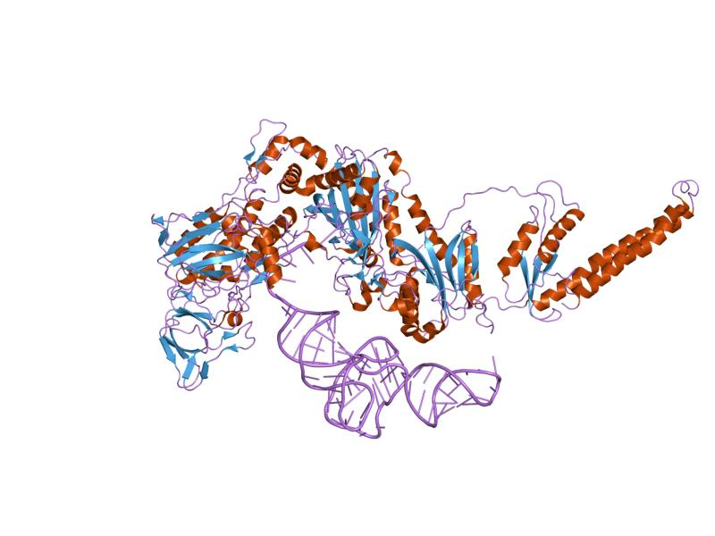 Cartoon representation of the molecular structure of protein registered with 1eiy code.